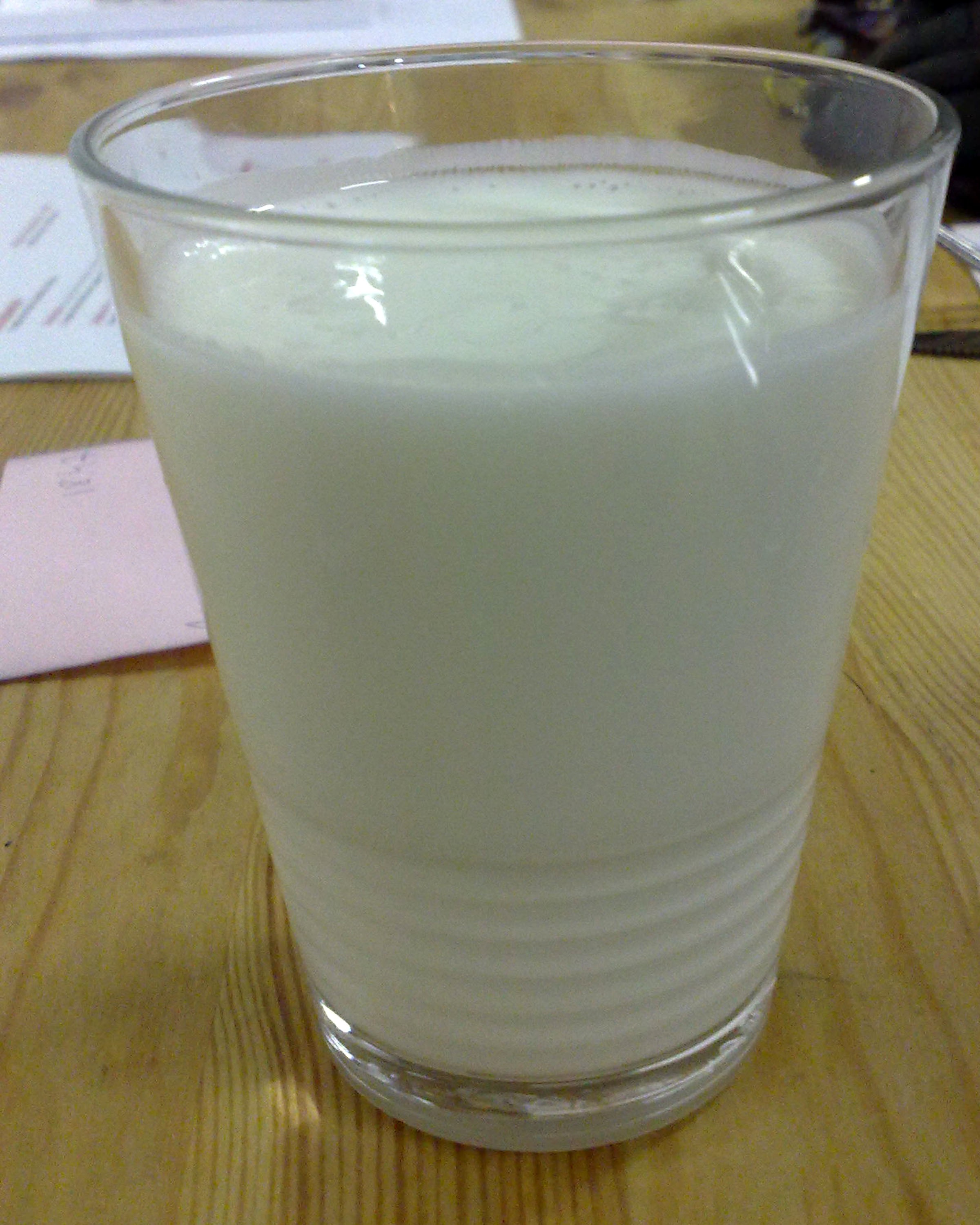 A glass of kefir at a Polish cafe in London.